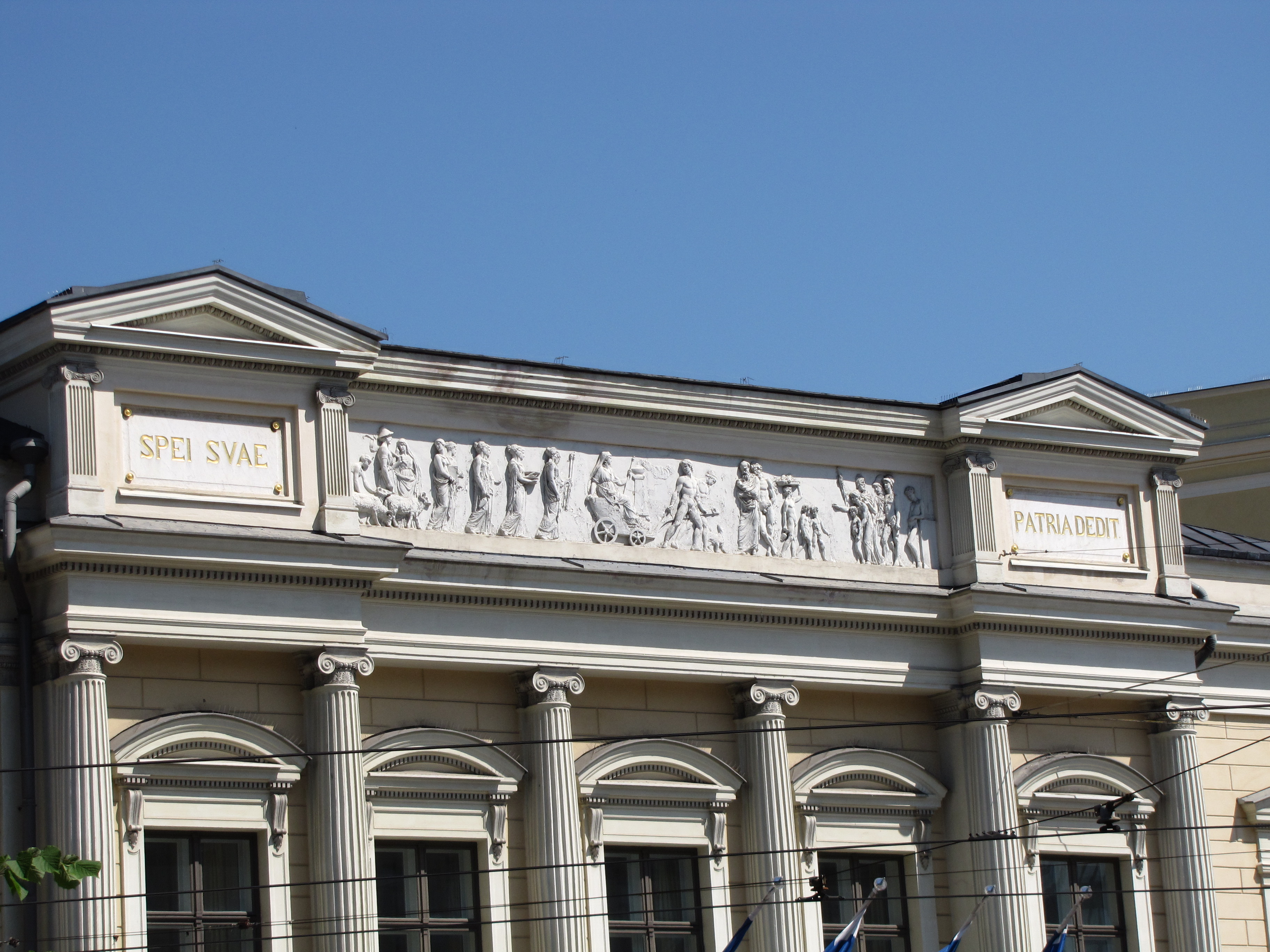 Kleobis and Biton frieze of the Helsinki old Student Union Building by Walter Runeberg (1838–1920), finished 1878.